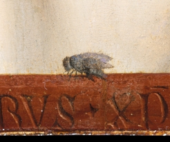 Painting by Petrus Christus after restoration.